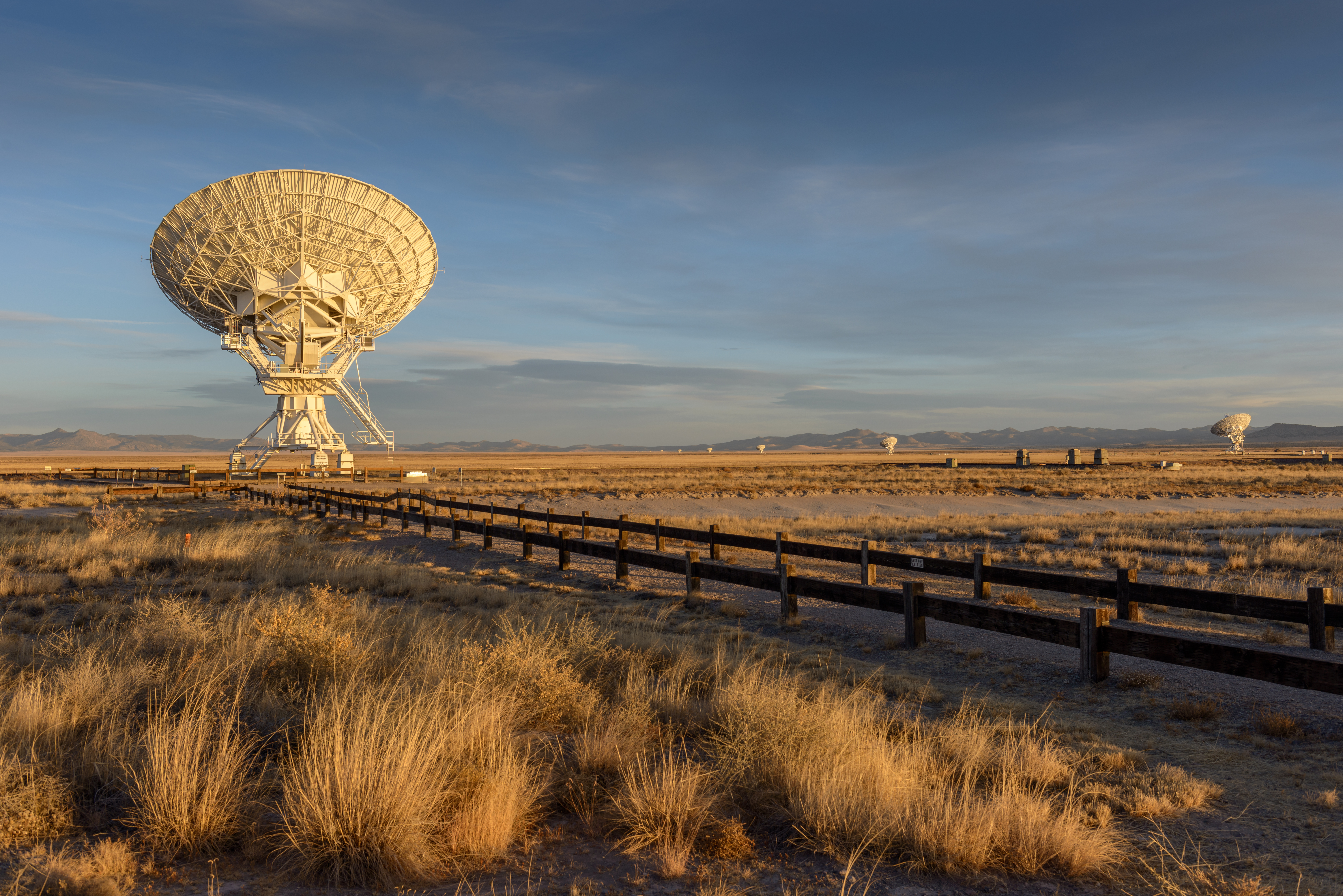 Very Large Array in New Mexico